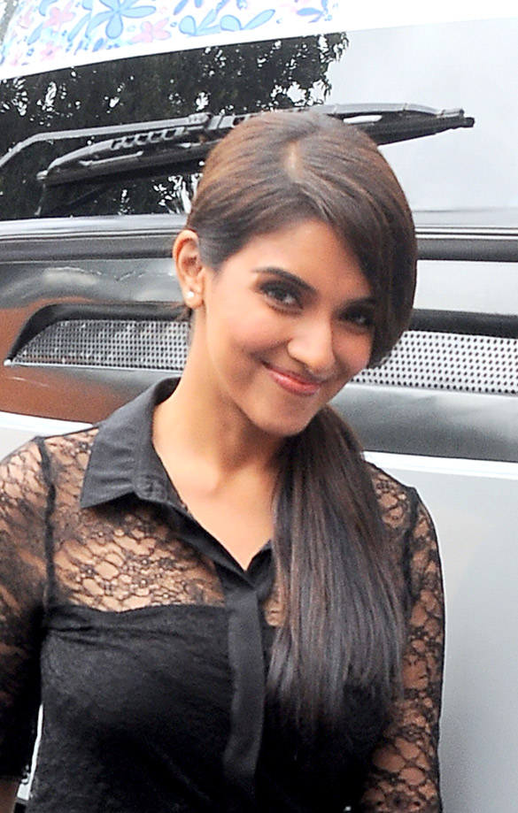 Cast of 'Bol Bachchan' interview at Mehboob studio Asin